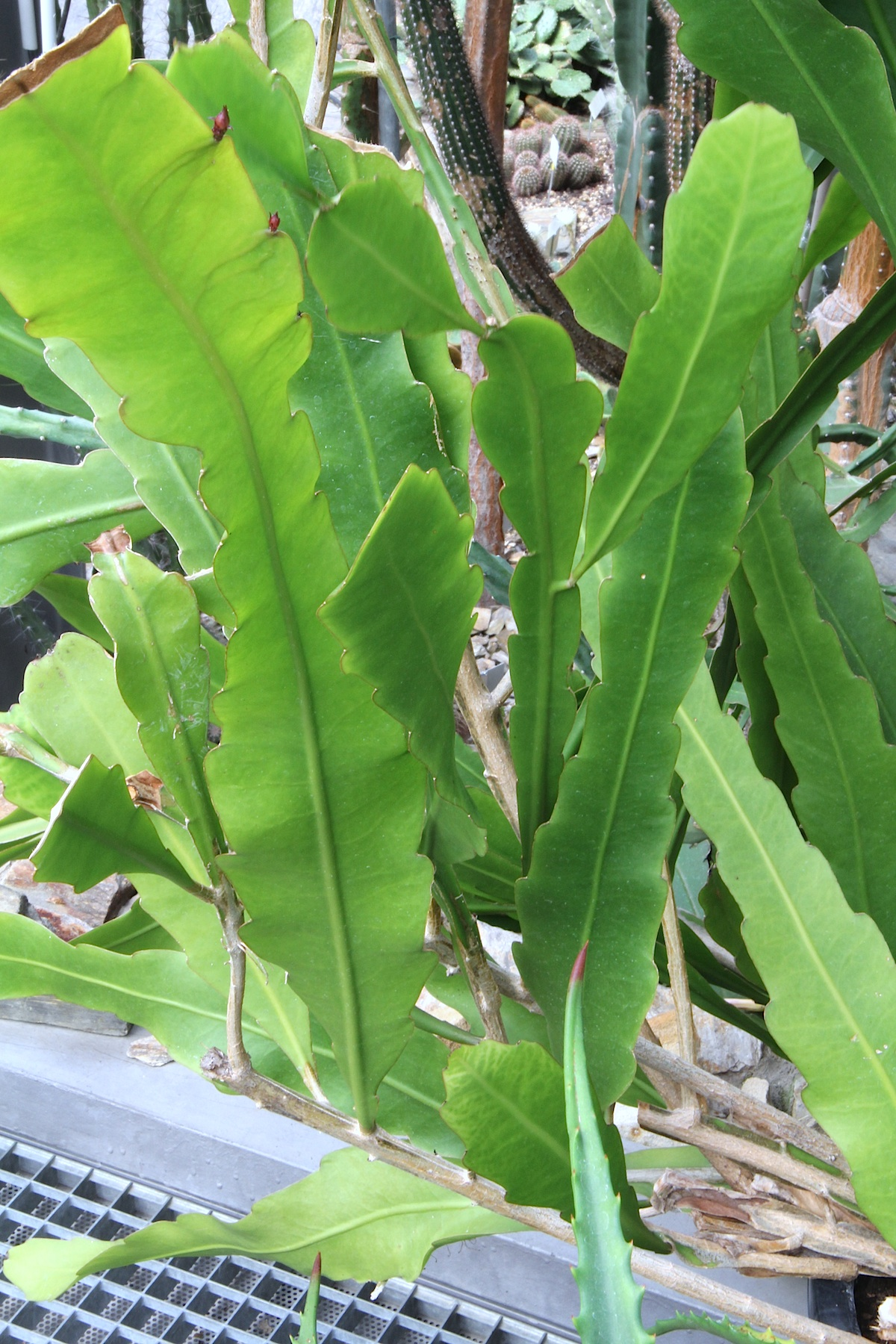 Epiphyllum hookeri